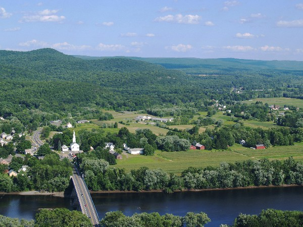 View of Sunderland, Massachusetts and Connecticut River from South Sugarloaf Mountain